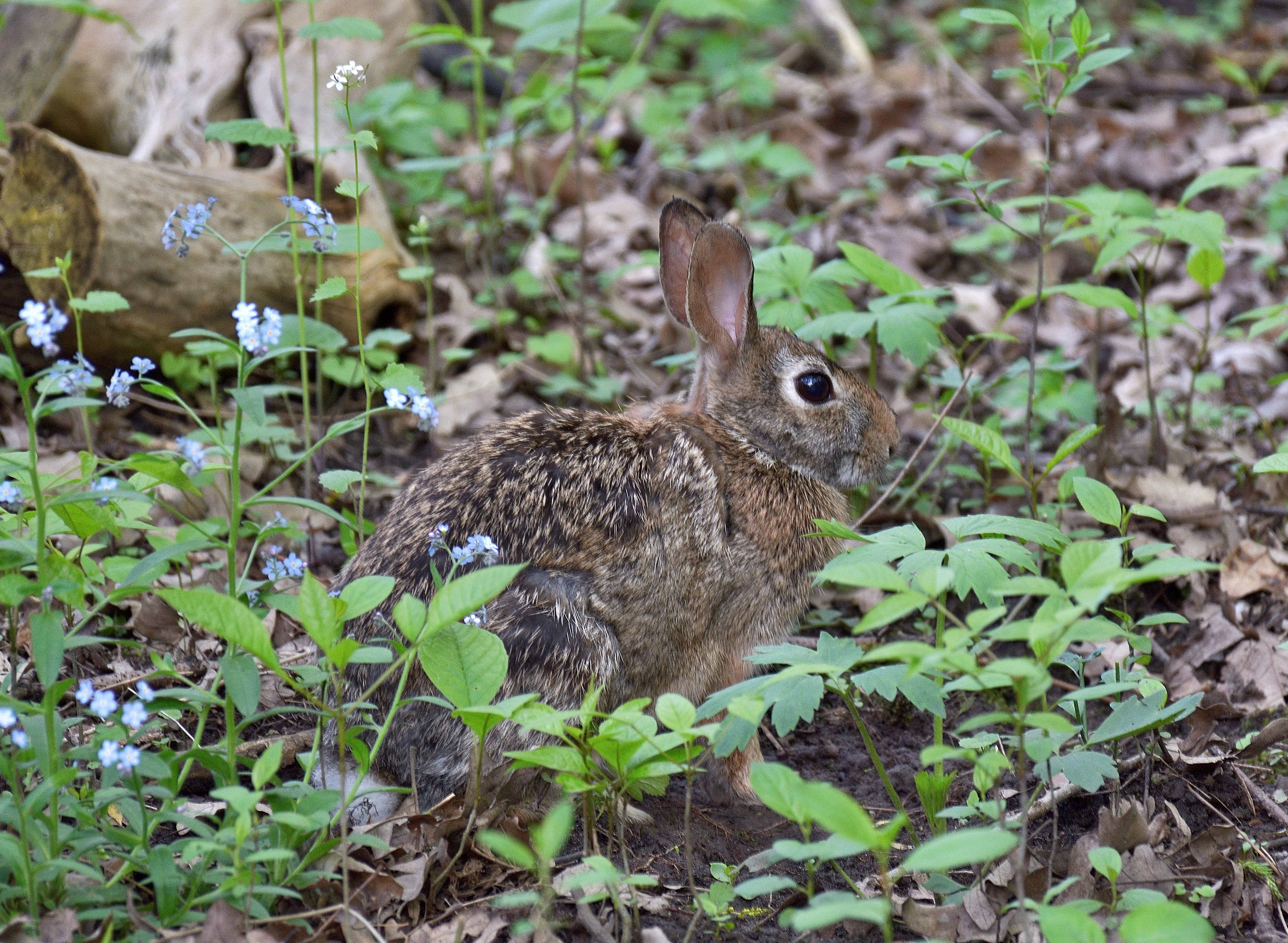 A North American Cottontail rabbit spotted in Waterloo, Ontario.